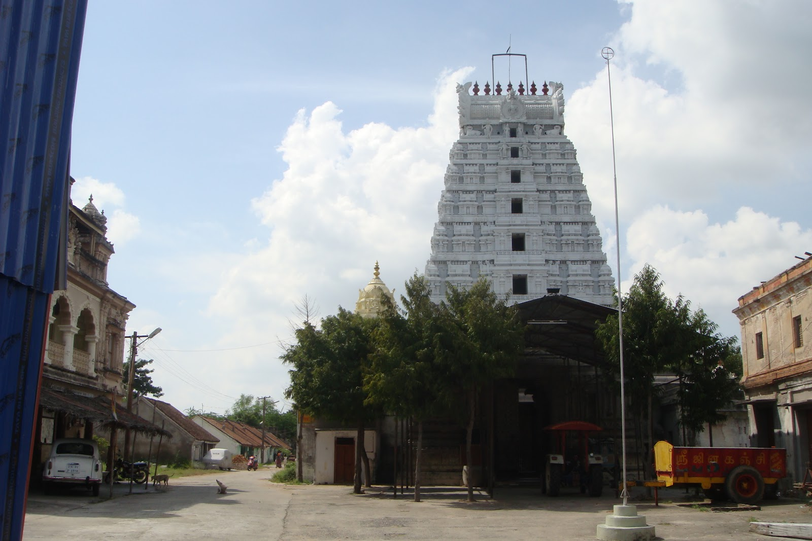 Image of the main temple at the Melsithamur Jain Math (Jina Kanchi Jain Math), located in Gingee, Villupuram district, Tamil Nadu, India. This Math is the residence of Bhattaraka Laxmisena, the religious head of the Tamil Jains.